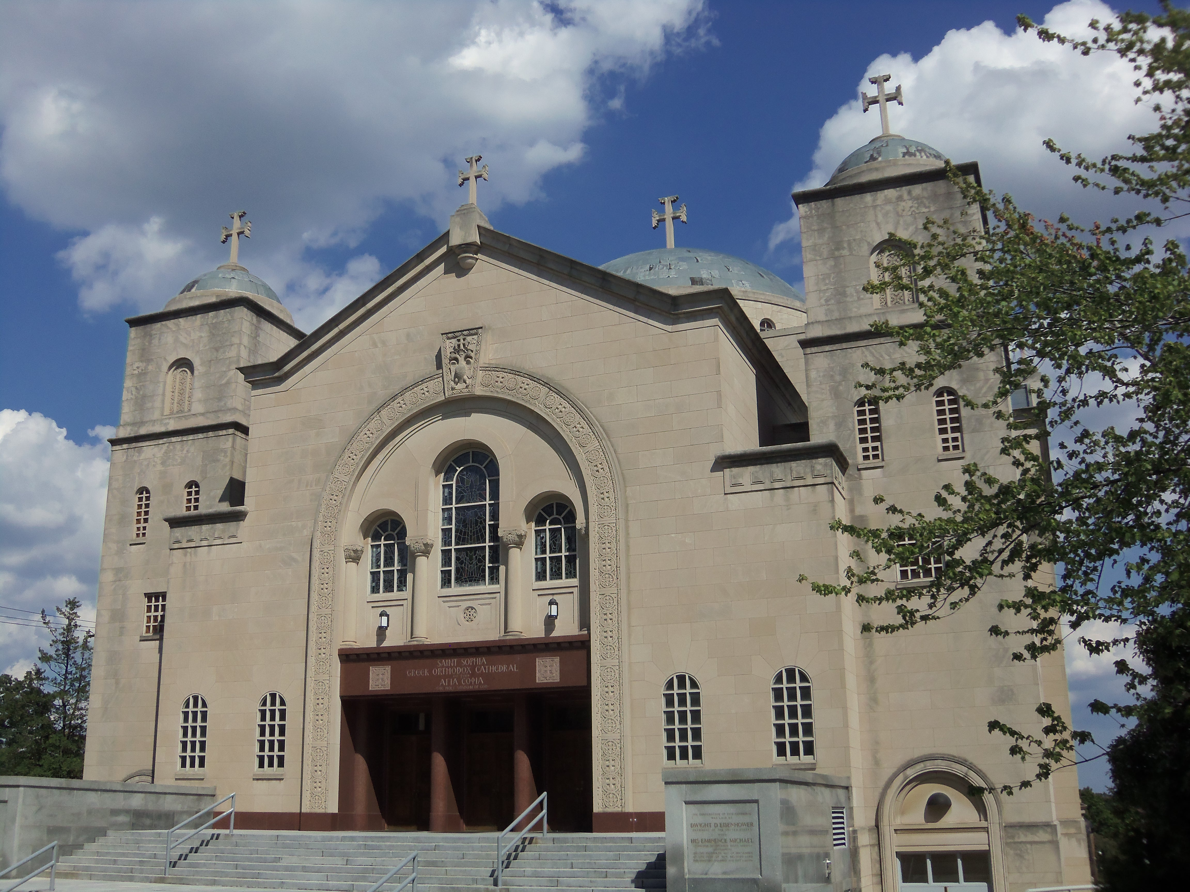 St. Sophia Greek Orthodox Cathedral in Washington, DC.